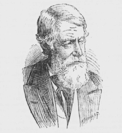 Engraving of Richard Carte, father of Richard D'Oyly Carte, scanned from "Death of Mr. Richard Carte", Musical Opinion and Music Trade Review January 1892, p. 147.